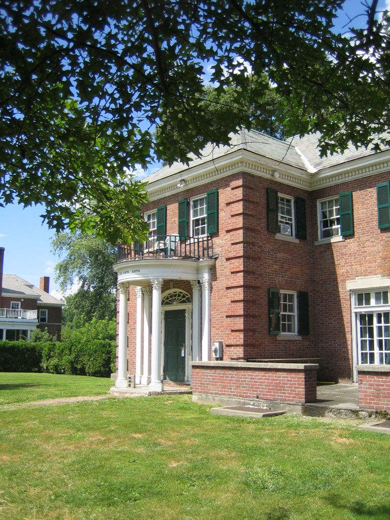 1 Webster Avenue, the Tri-Kap Fraternity at Dartmouth College